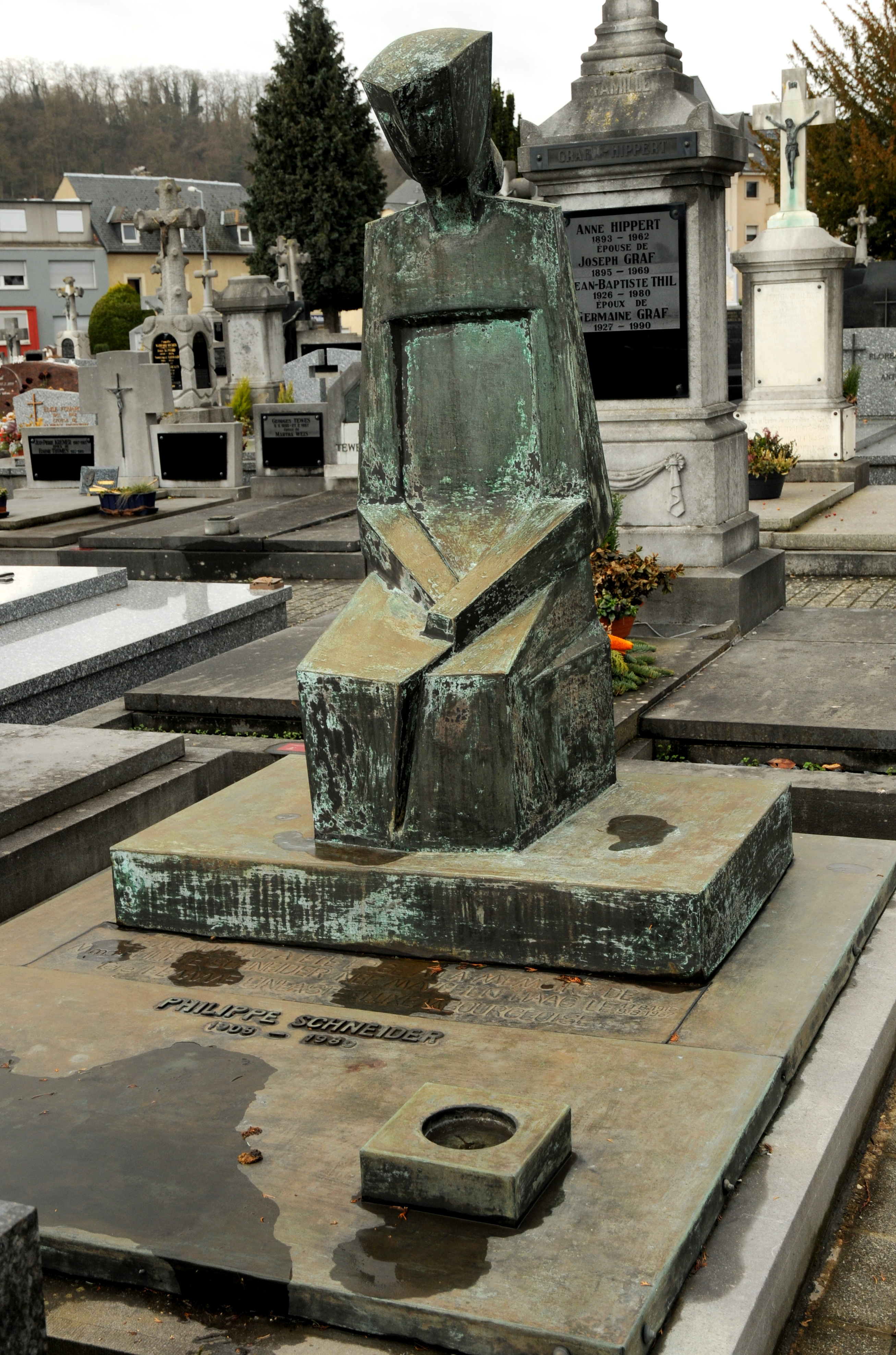 Grave of Philippe Schneider (1908-1980), Luxembourg Film director, in Dudelange.